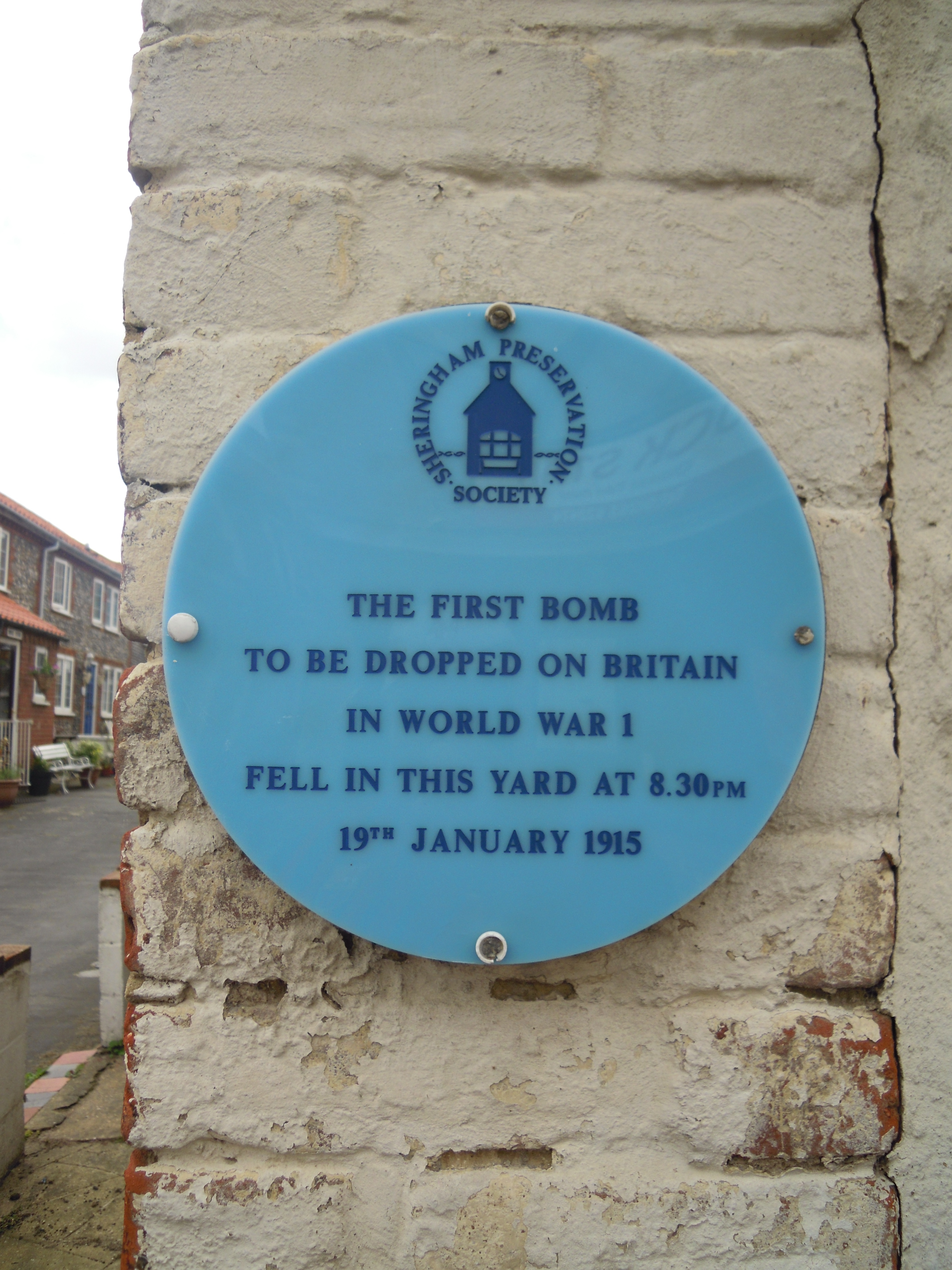 Blue Plaque marking the spot of a Zeppelin attack in the First World War , Wyndham Street, Sheringham, Norfolk